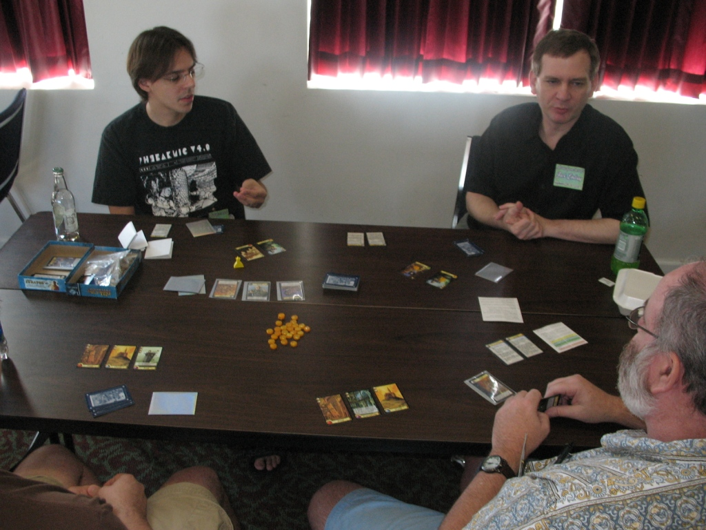 People playing Citadels Card Game